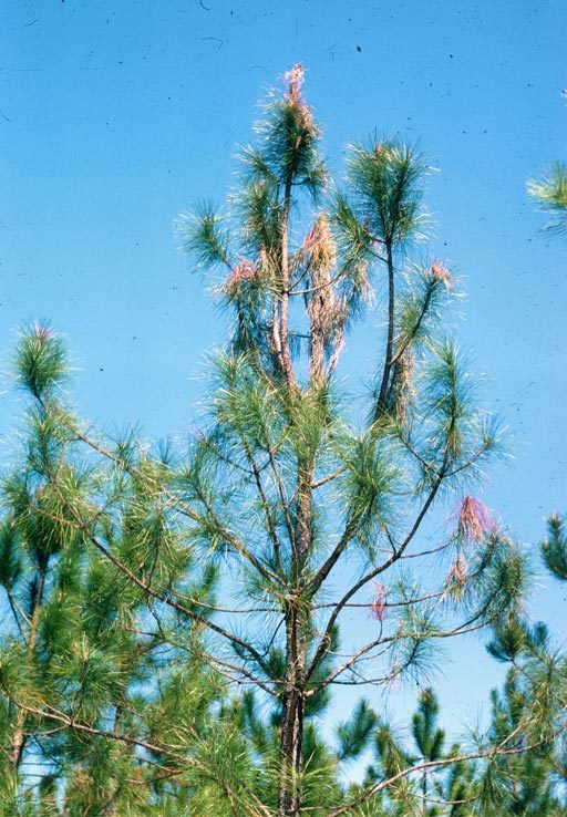 Pitch canker (Symptoms)on slash pine (Pinus elliottii Engelm.) Fusarium circinatum Nirenberg & O'Donnell Image location: United States This image contains digital watermarking or credits in the image itself. The usage of visible watermarks is discouraged. If a non-watermarked version of the image is available, please upload it under the same file name and then remove this template. Ensure that removed information is present in the image description page and replace this template with metadata from image or attribution metadata from licensed image . Caution: Before removing a watermark from a copyrighted image, please read the WMF's analysis of the legal ramifications of doing so, as well as Commons' proposed policy regarding watermarks. If the old version is still useful, for example if removing the watermark damages the image significantly, upload the new version under a different title so that both can be used. After uploading the non-watermarked version, replace this template with superseded|new filename|version without watermarks .